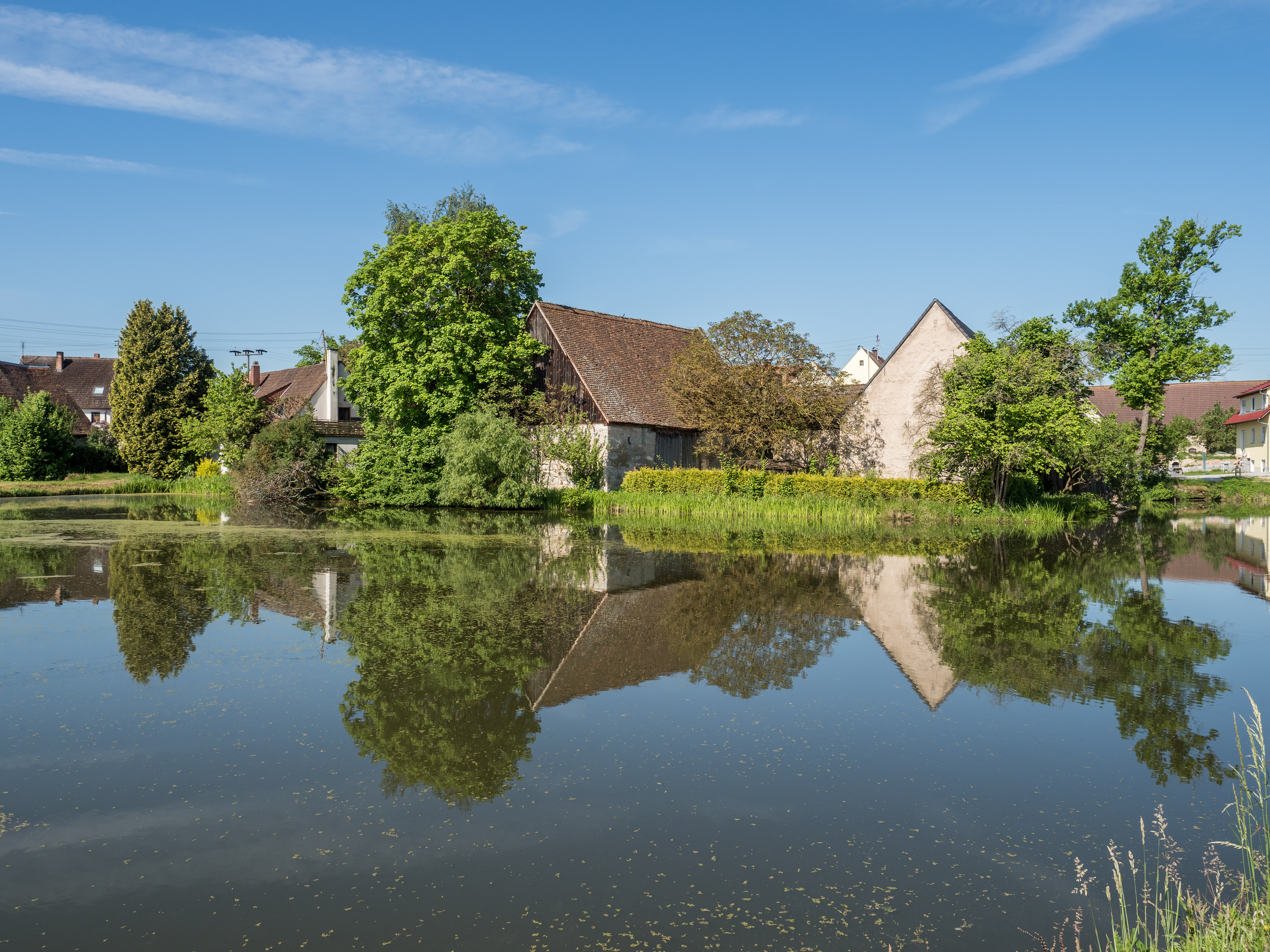 Fish pond near Weisendorf in Aischgrund